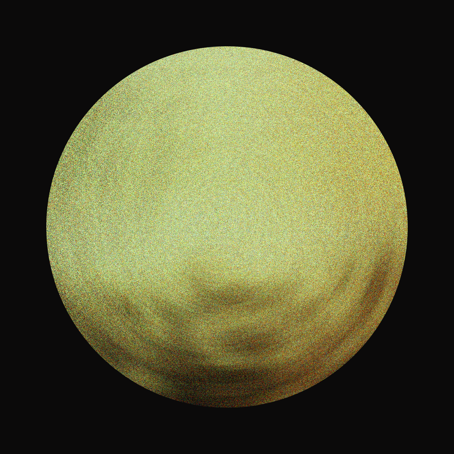 Moz5a's horizons EP